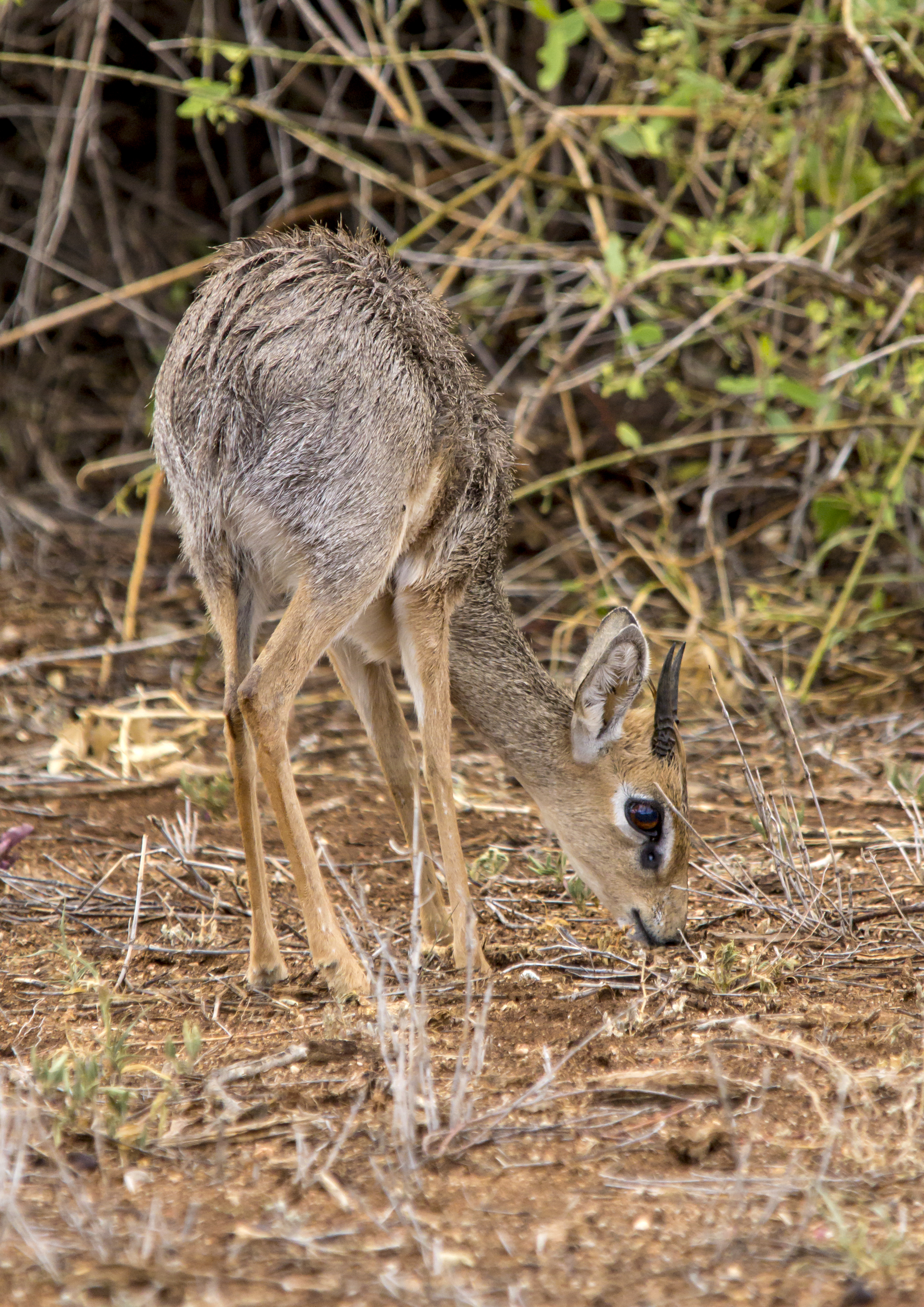 Dik dik at Samburu, Kenya